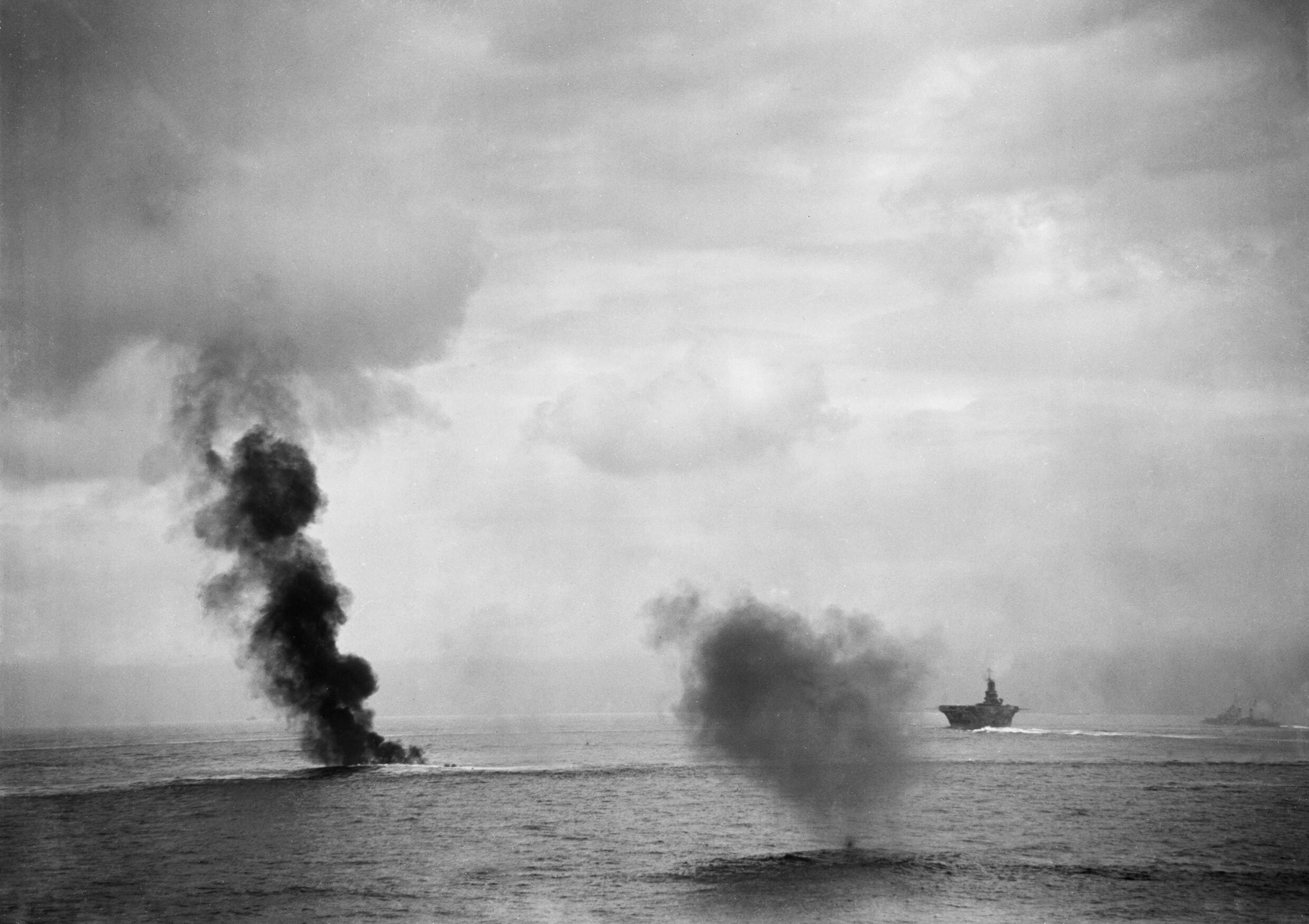 The Royal Navy during the Second World War An Italian torpedo bomber on fire and crashing whilst HMS ARK ROYAL steams on during Operation Halberd, a large British convoy to Malta with a Royal Navy escort under the command of Vice Admiral Sir James Somerville.